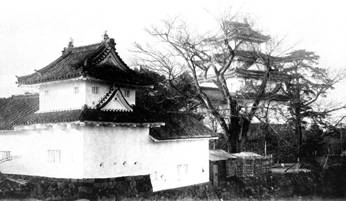 Ogaki Castle keep tower and a yagura in 1933. It was destroyed by fire of Ogaki bombing in July 1945.